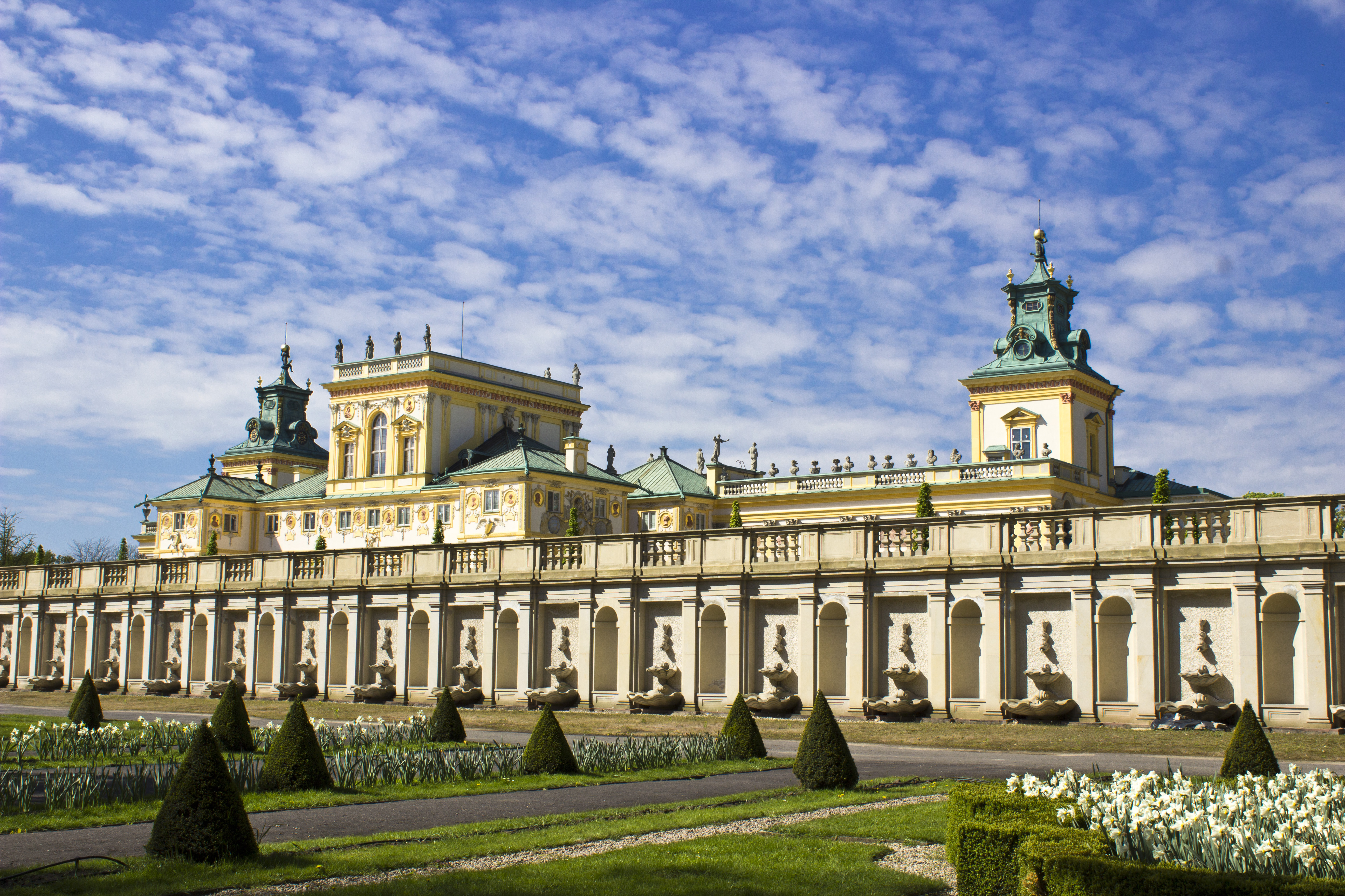 Wilanow palace